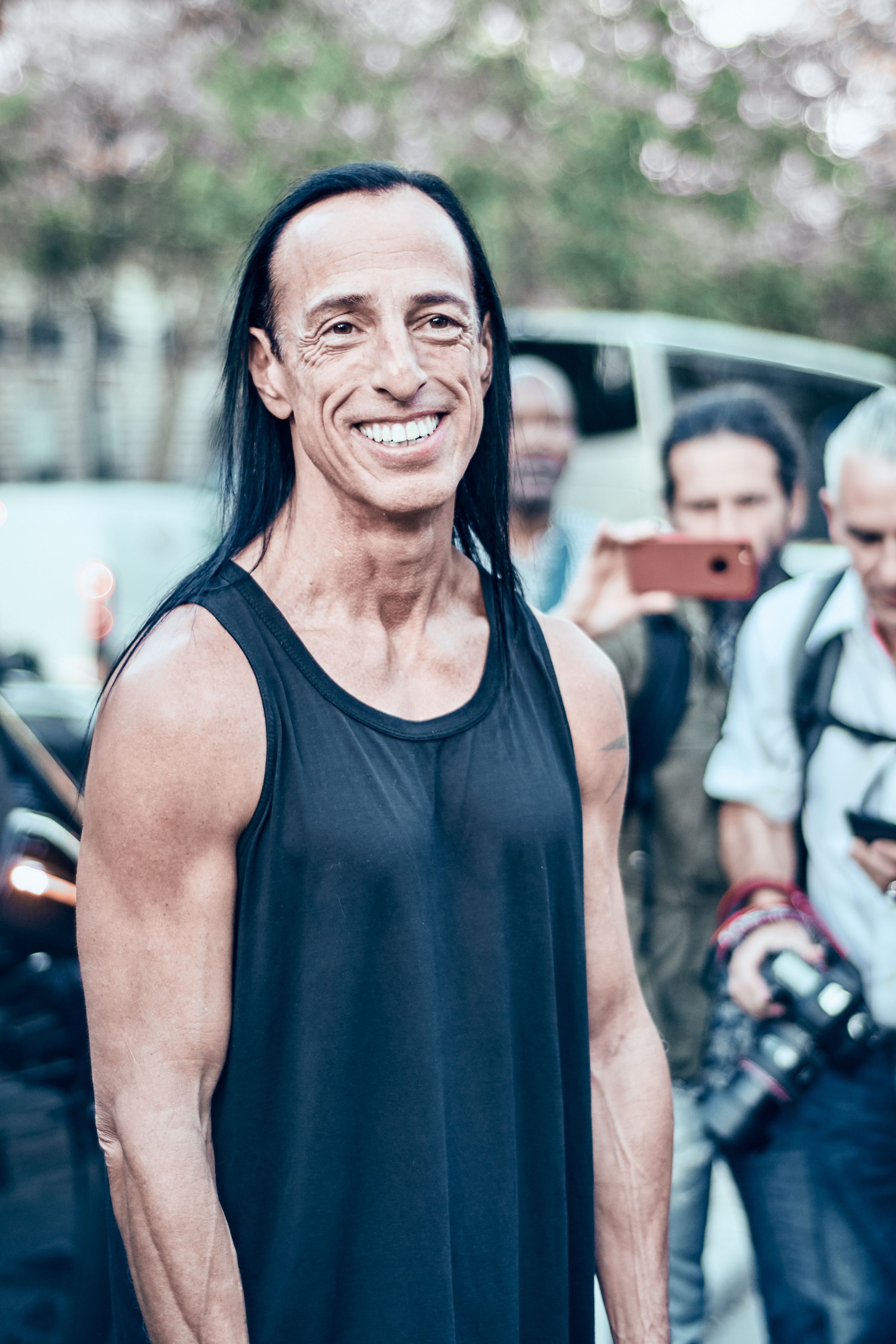 Rick Owens at Paris Fashion Week RTW Spring/Summer 2019